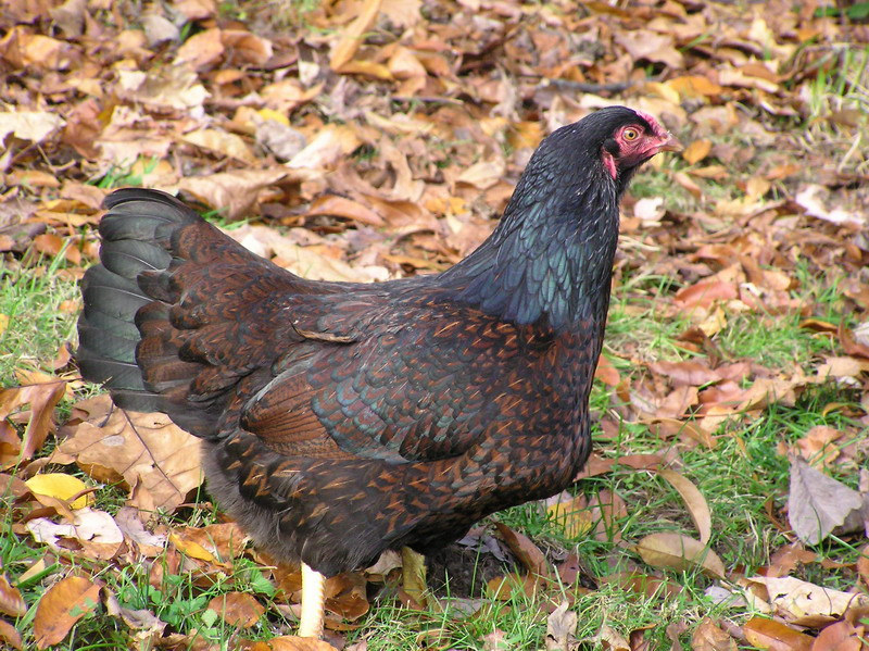 Dark Cornish Hen owned by Misty Lundberg